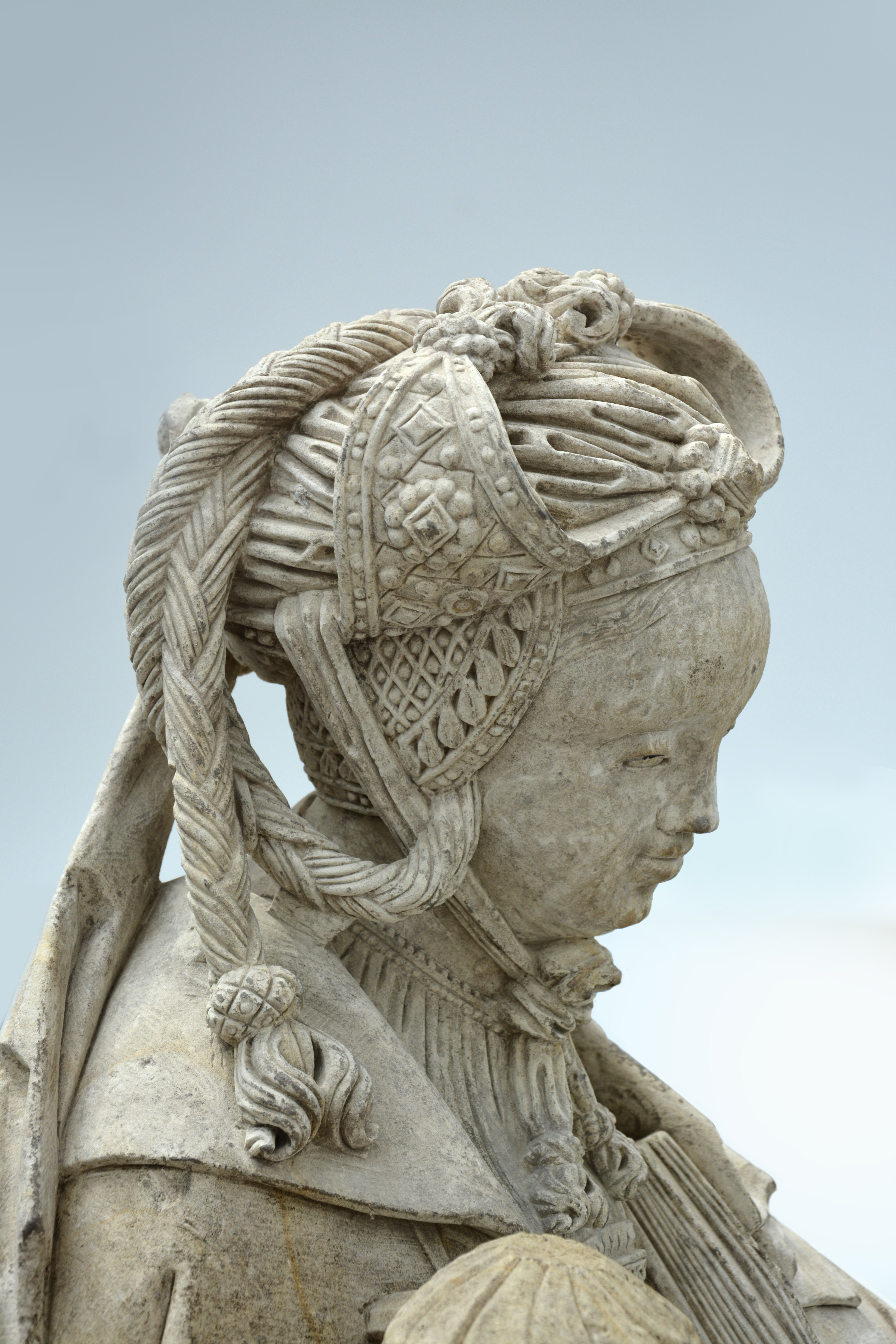 St. Mary Magdalene, probably carved circa 1520 (Avesnoi's limestone); Photography done in the Museum restoration room Museum of Fine Arts in Lille. The statue is being restored and cleaned by Julie André-Madjelessi (end of restoration work, the end of July 2016). Another statue found in the same grave ; statue of St. Agnes is at the same time and in the same place restored by Sabine Kessler. Both statues are part of a group of four sculptures discovered in 2013 in a pit in Orchies, and called "Belles du nord".